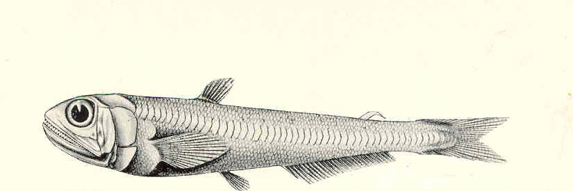 Scopelarchus guentheri, from the Arabian Sea, 947 fathoms; a curious generalised Scopeloid... . Subject: Scopelarchus, Scopelarchidae Tag: Fish